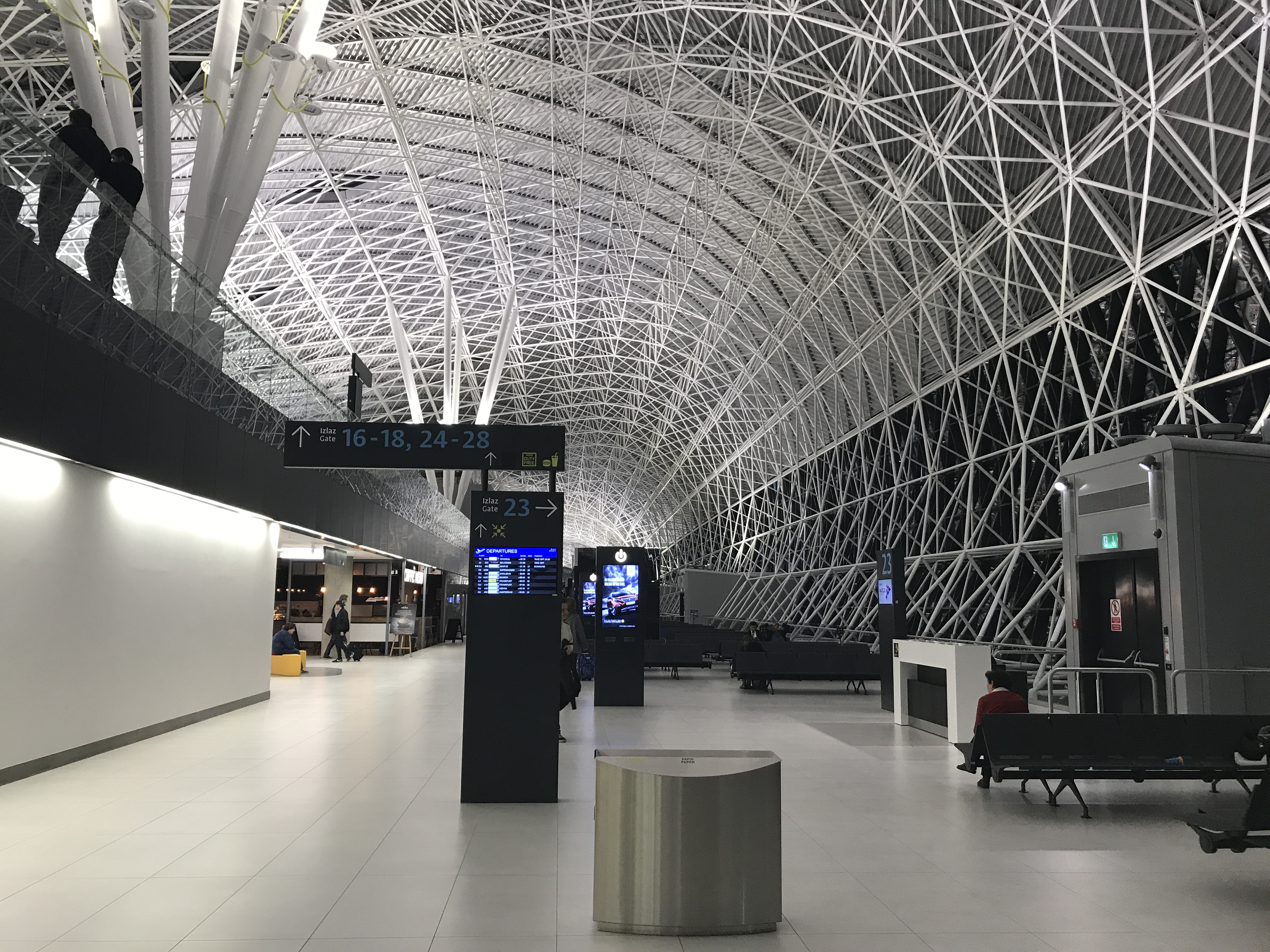 The interior of Franjo Tuđman Airport in Zagreb in May 2017.